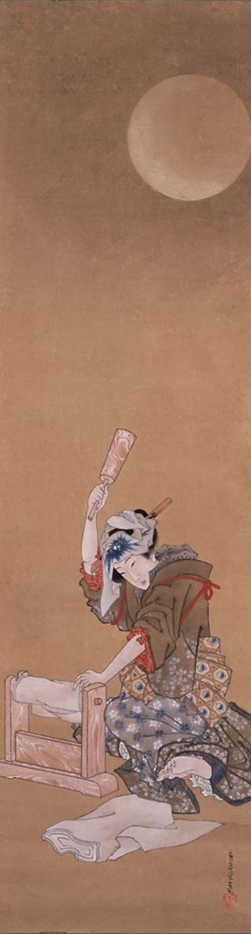 "Kinuta" or "Beauty Fulling Cloth in the Moonlight", Edo period, 19th century by Katsushika Oi Born: c. 1800 Died: c. 1866 Other Names: お栄 (Oei)